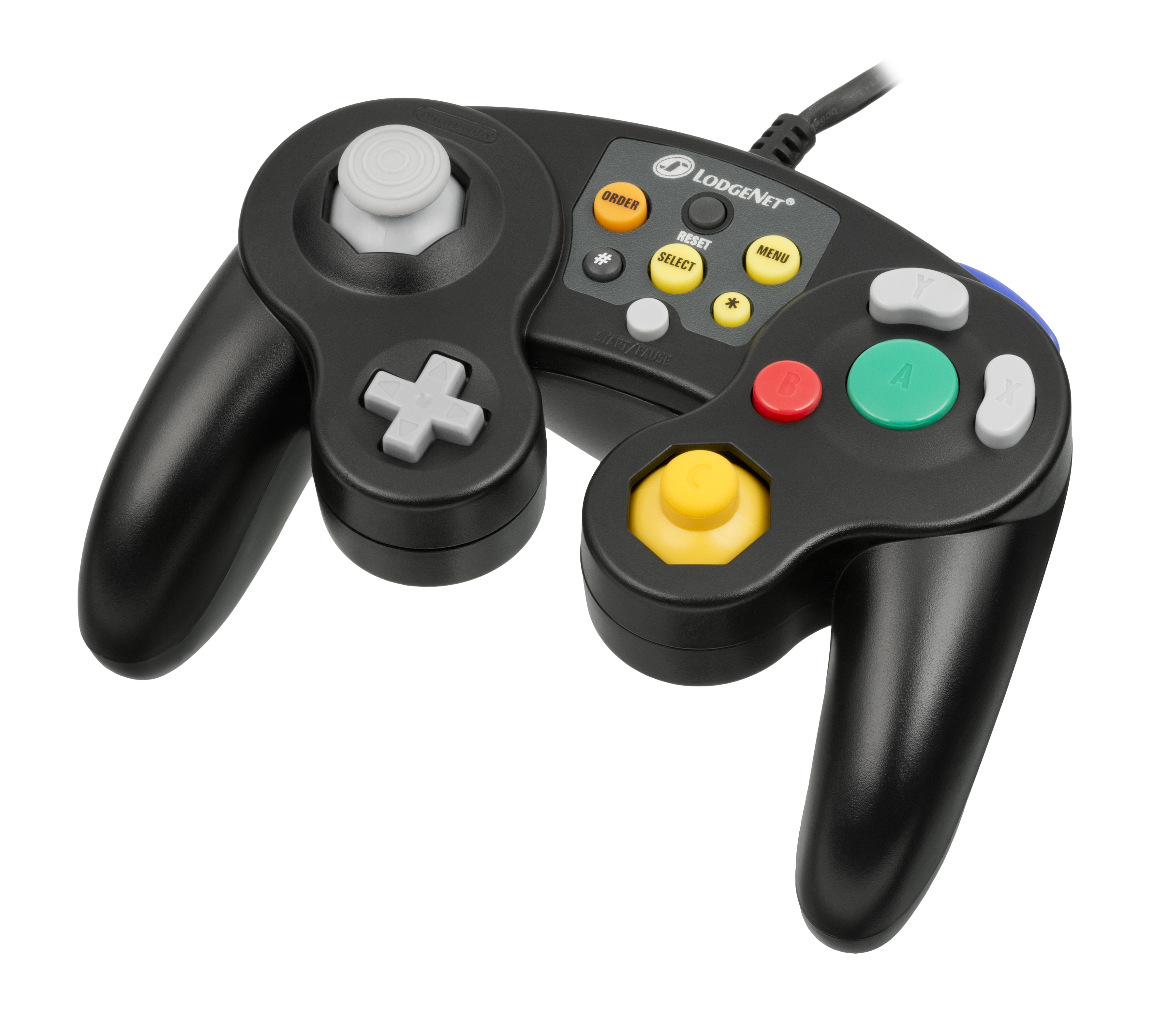 The LodgeNet Nintendo GameCube controller, works with a pay-per-play service in certain North American hotels.